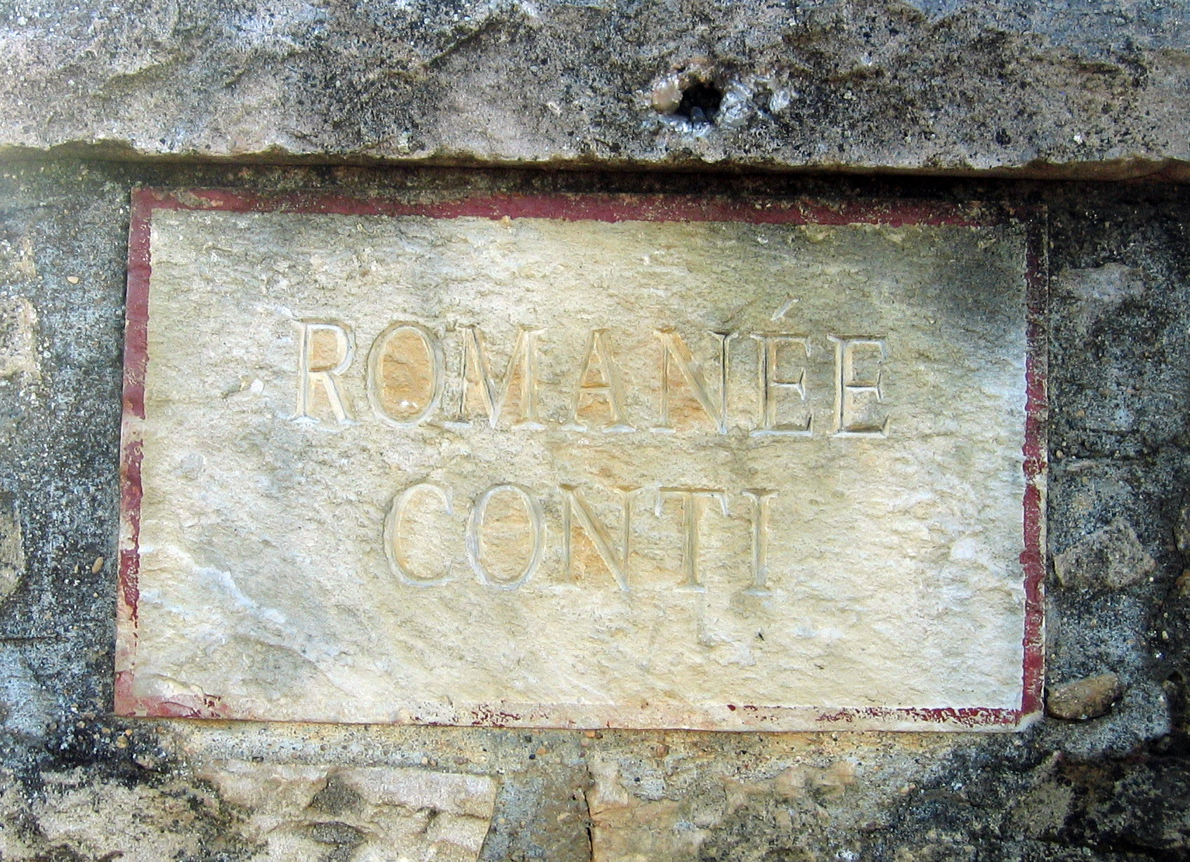 Sign/stone tablet at the wall of the Romanée-Conti vineyard